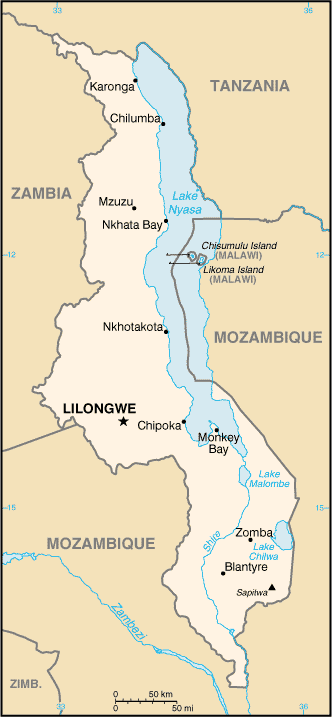 Map of Malawi showing major cities.